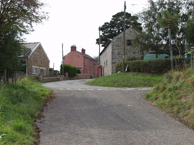 Pen-y-bryn on the hill above Trevor. A small habitation still with some of the red multi-paned public telephone boxes. I'm sure with the accountants driving Telecom plc its days are numbered.